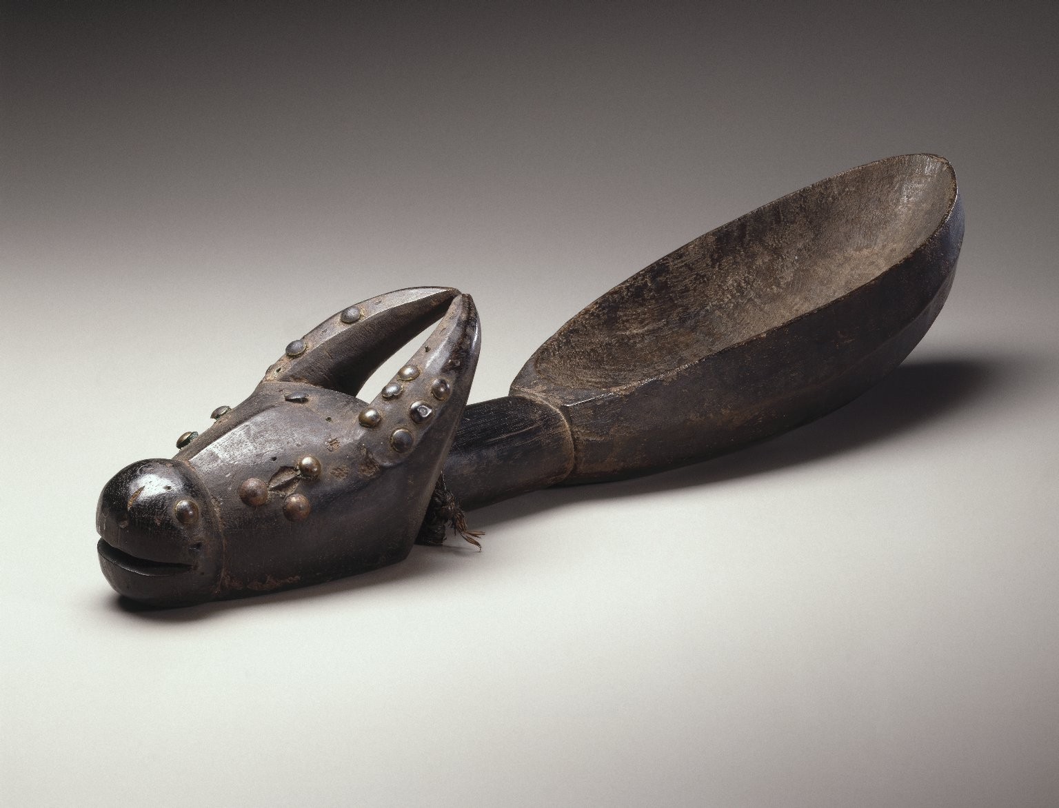 Feast ladle with elongated bowl and handle with large terminal in the form of a cow's head. The bowl, which is longer than handle, has an underside of seven lengthwise facets. The cow's head has faceted horns, small eyes, and bulbous nose; it is embellished with brass carpet tacks, several of which are missing. Condition: Good. Overall signs of wear; nicks and scratches.